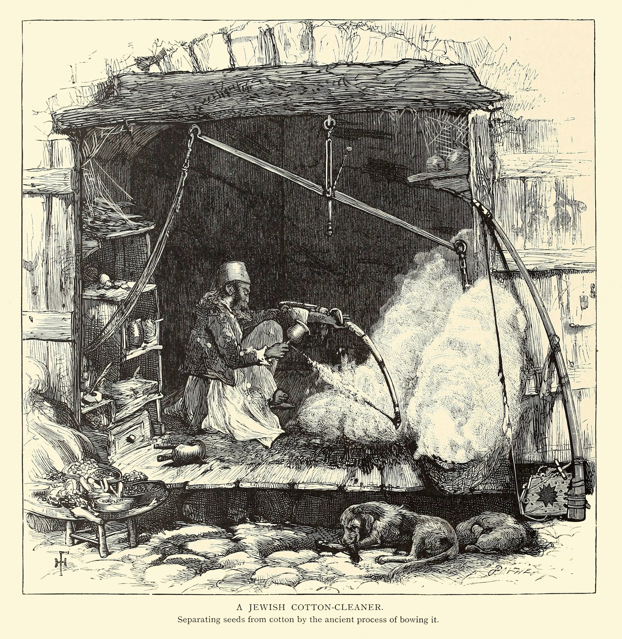 Caption: a jewish cotton-cleaner.Separating seeds from cotton by the ancient process of bowing it. The labor-intensive process used before the advent of the cotton gin